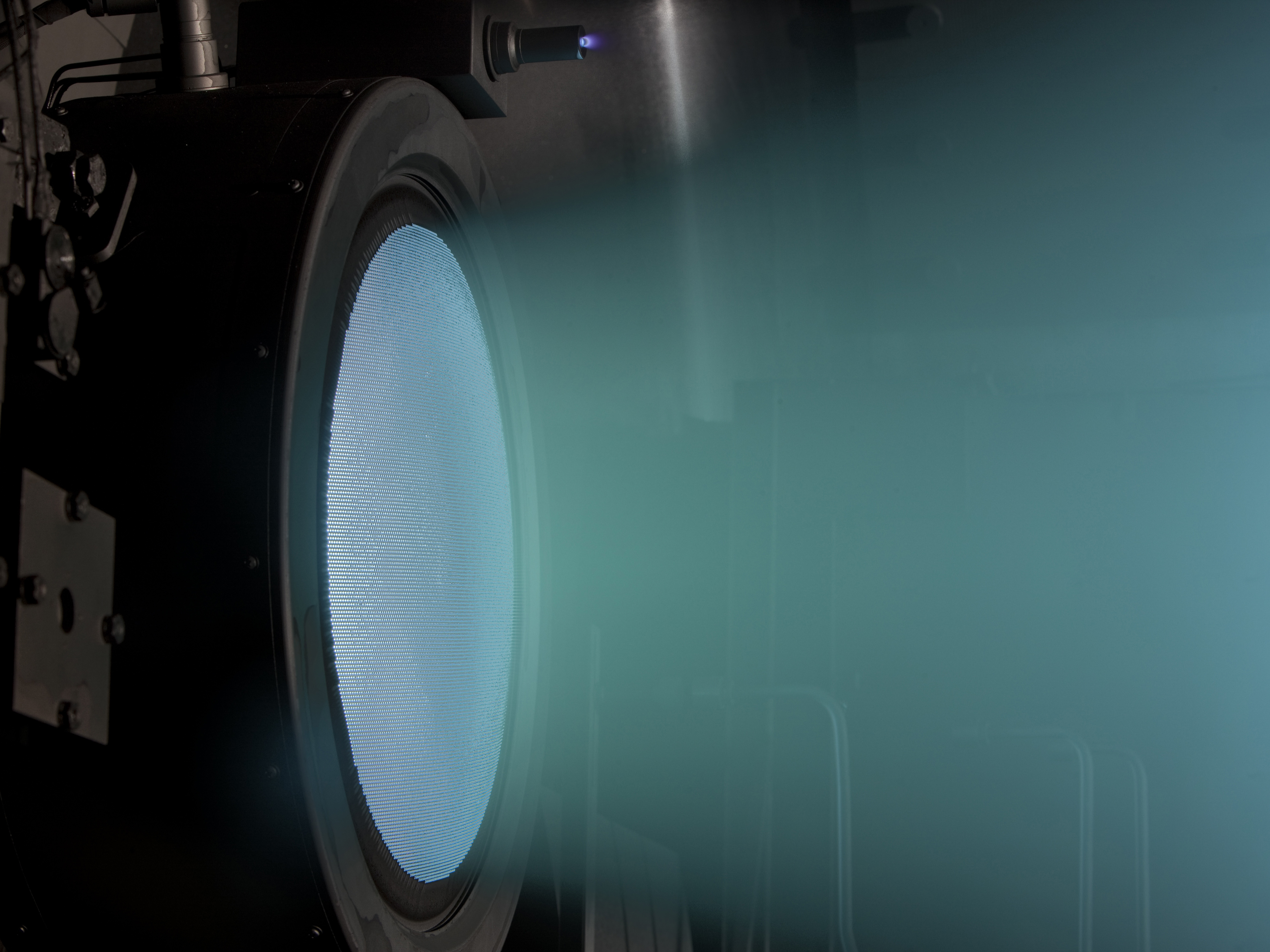 Image of NASA's Evolutionary Xenon Thruster (NEXT) - 7 kilowatt ion thruster, tested for more than 48,000 hours of operation in vacuum chamber.